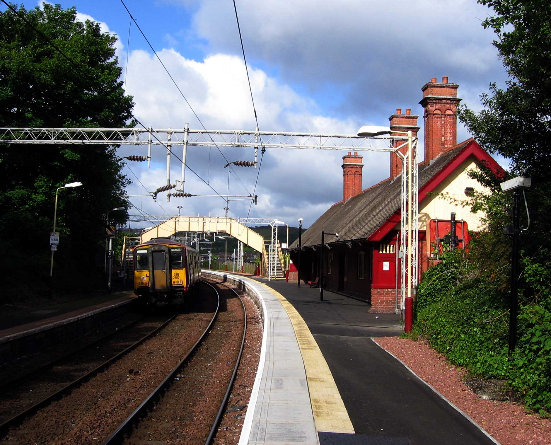 Fort Matilda railway station, Creenock